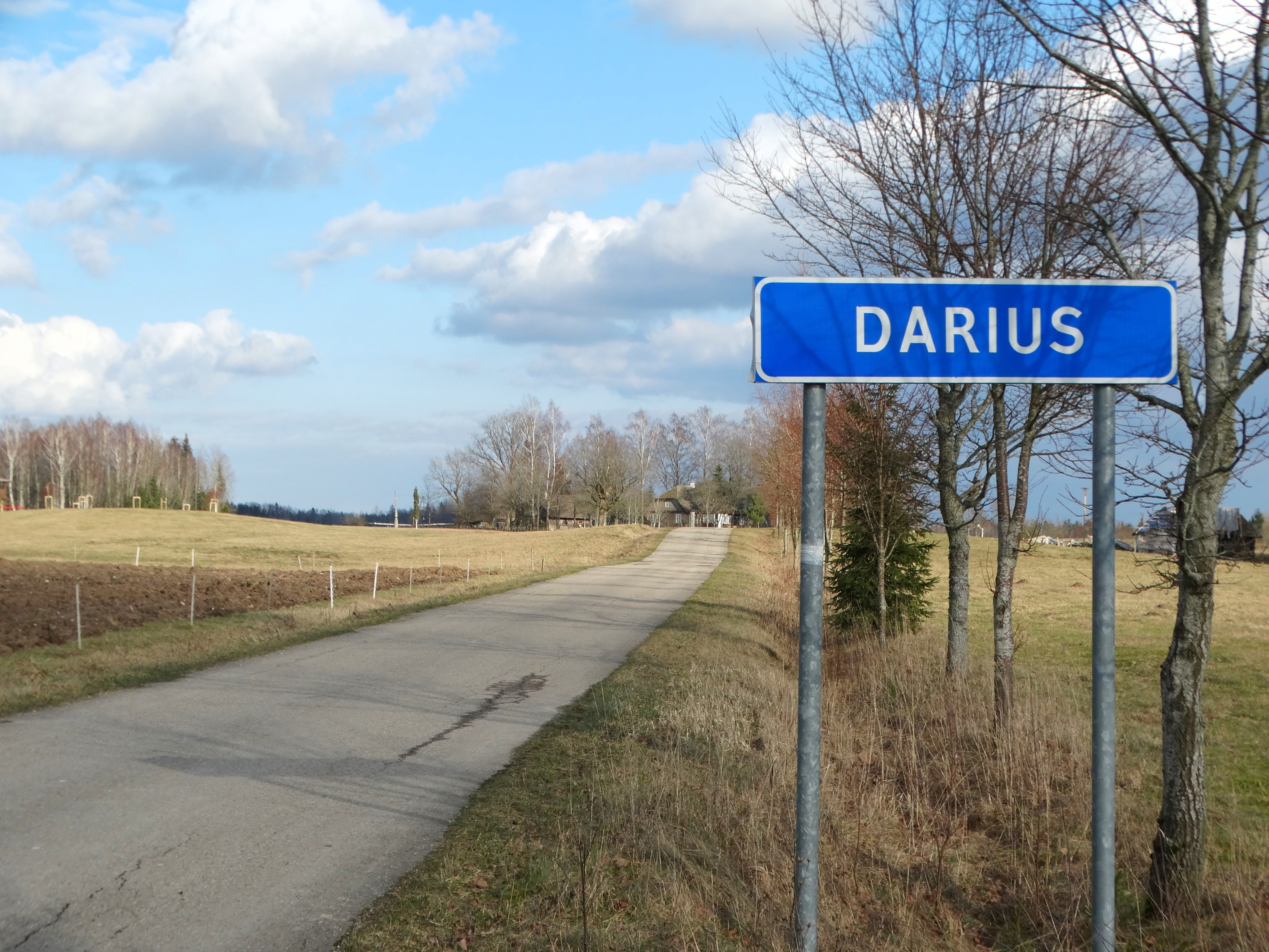 Darius (Judrėnai), Klaipėda District. Lithuania